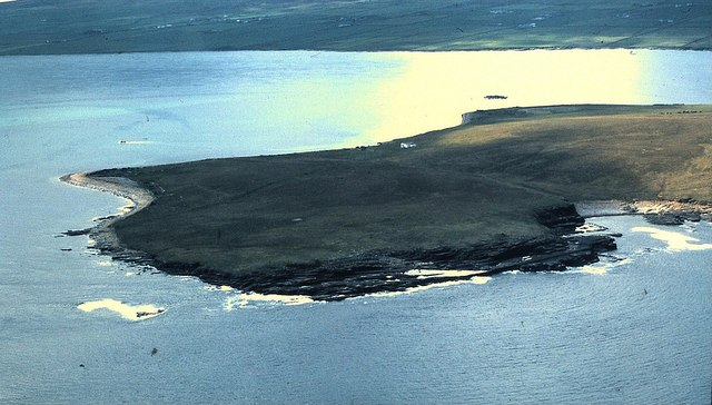 Eynhallow Original description: View of Northwest part of Eynhallow The near coast from Grory (left) to The Grange (right). The rock shelf in the centre is the Fint, with the Robertson House (white) beyond.